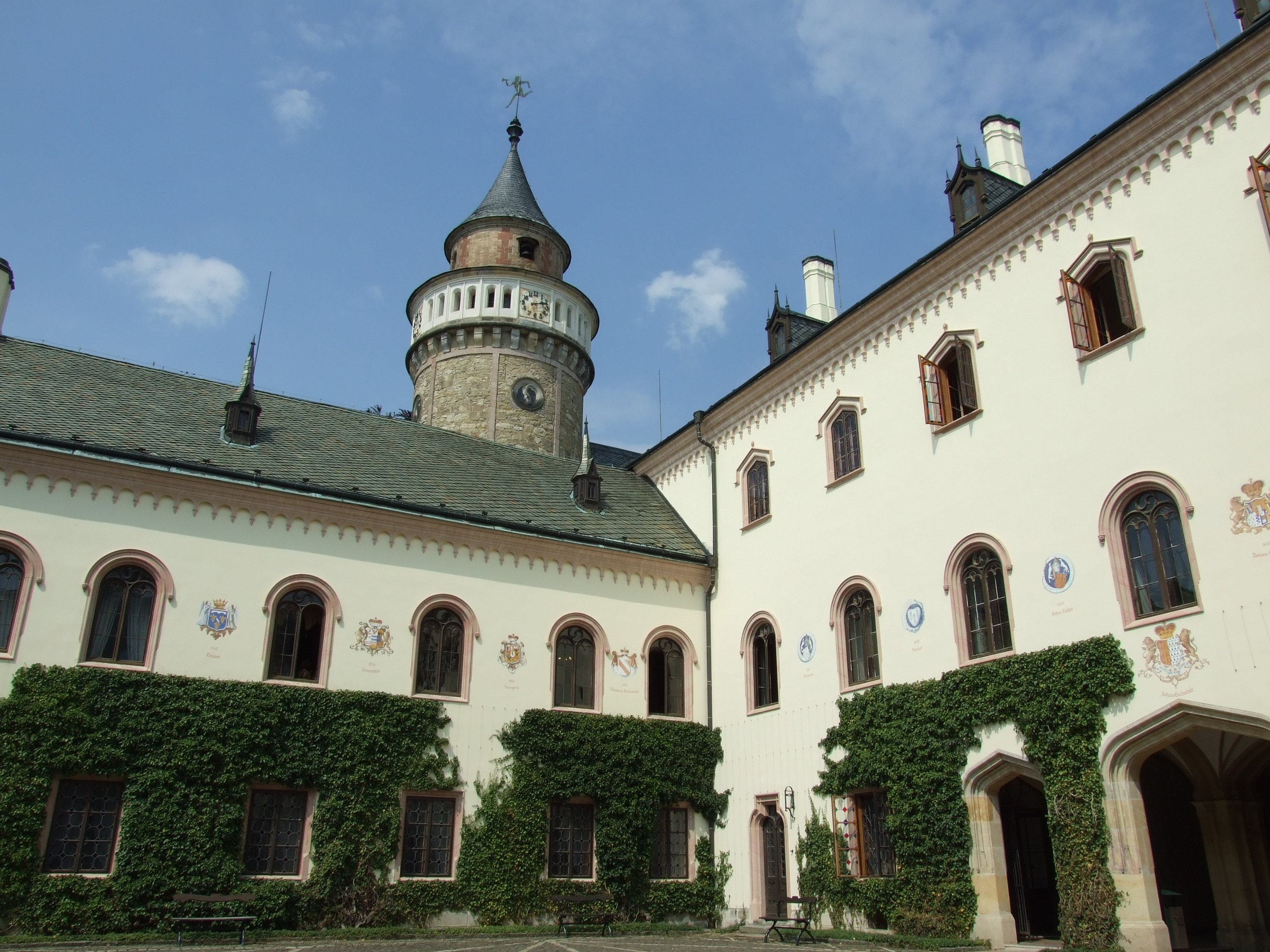 Sychrov castle